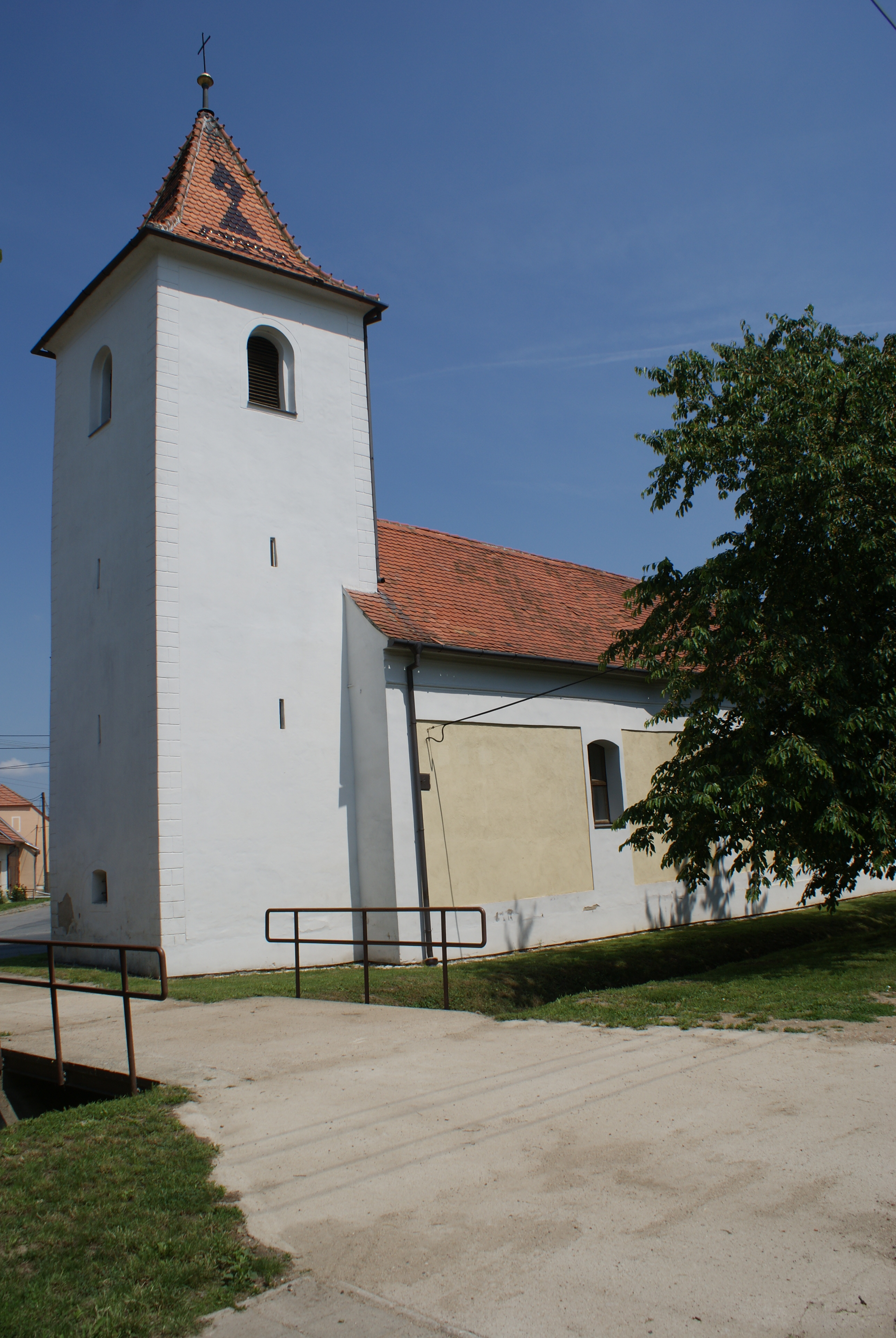 Milovice, a village in Břeclav District, Czech Republic, church of St Oswald.